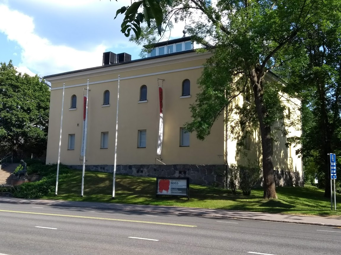 Hämeenlinna art museum from Viipurintie